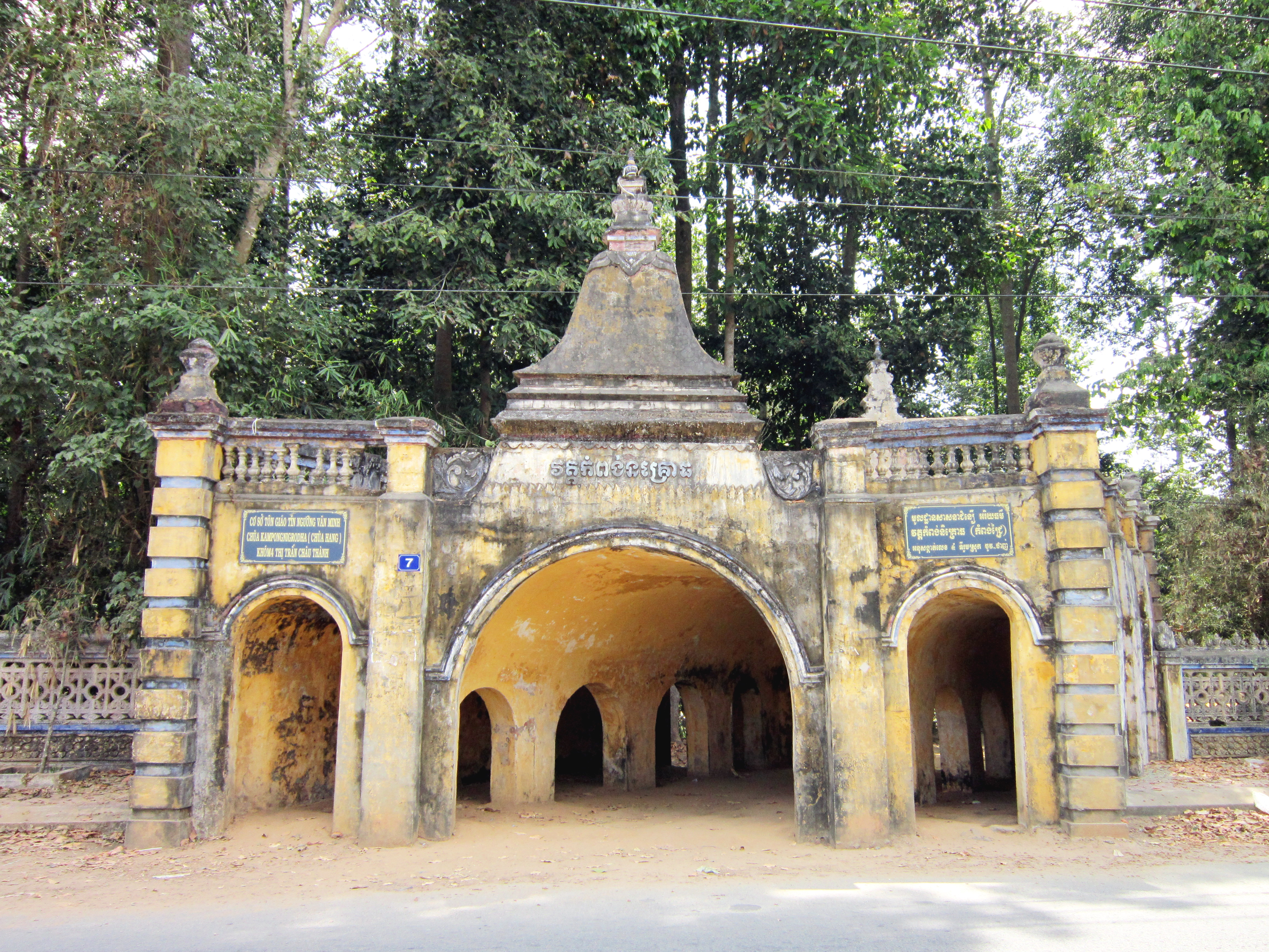 Entrance to Hang Temple